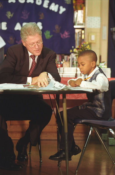 Working with a student at Jenner Elementary School in Chicago, IL, September 25.